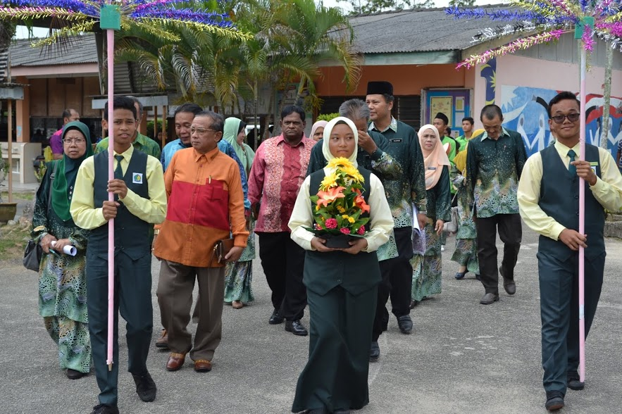 GAMBAR 3